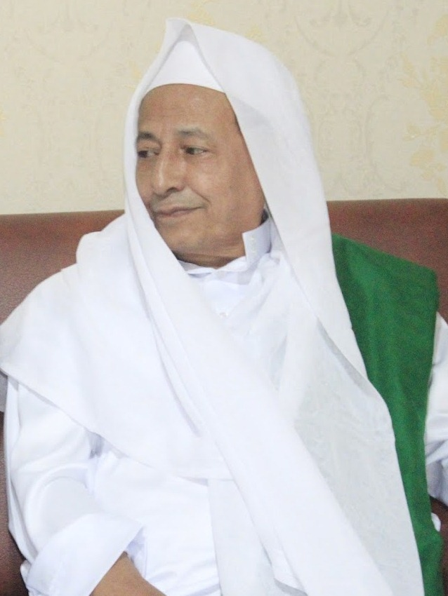 Habib Luthfi bin Yahya, chairman of Jamiyyah Ahlith Thariqah Al Mu'tabarah An Nahdliyyah